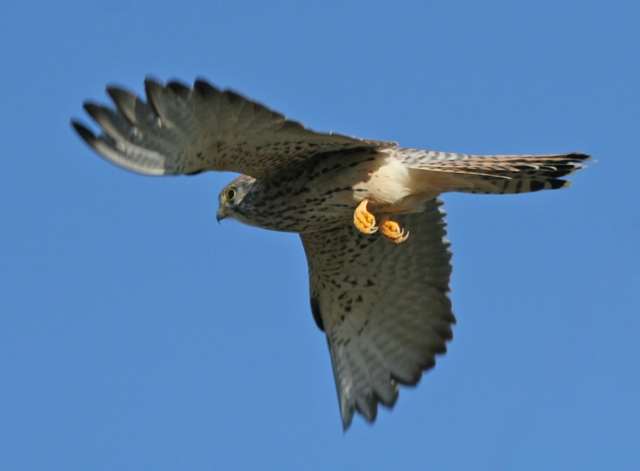 Female in Flight from English WP Photographed by Neil Gray on 25 February 2006 near Hanover, Northern Cape, South Africa 6